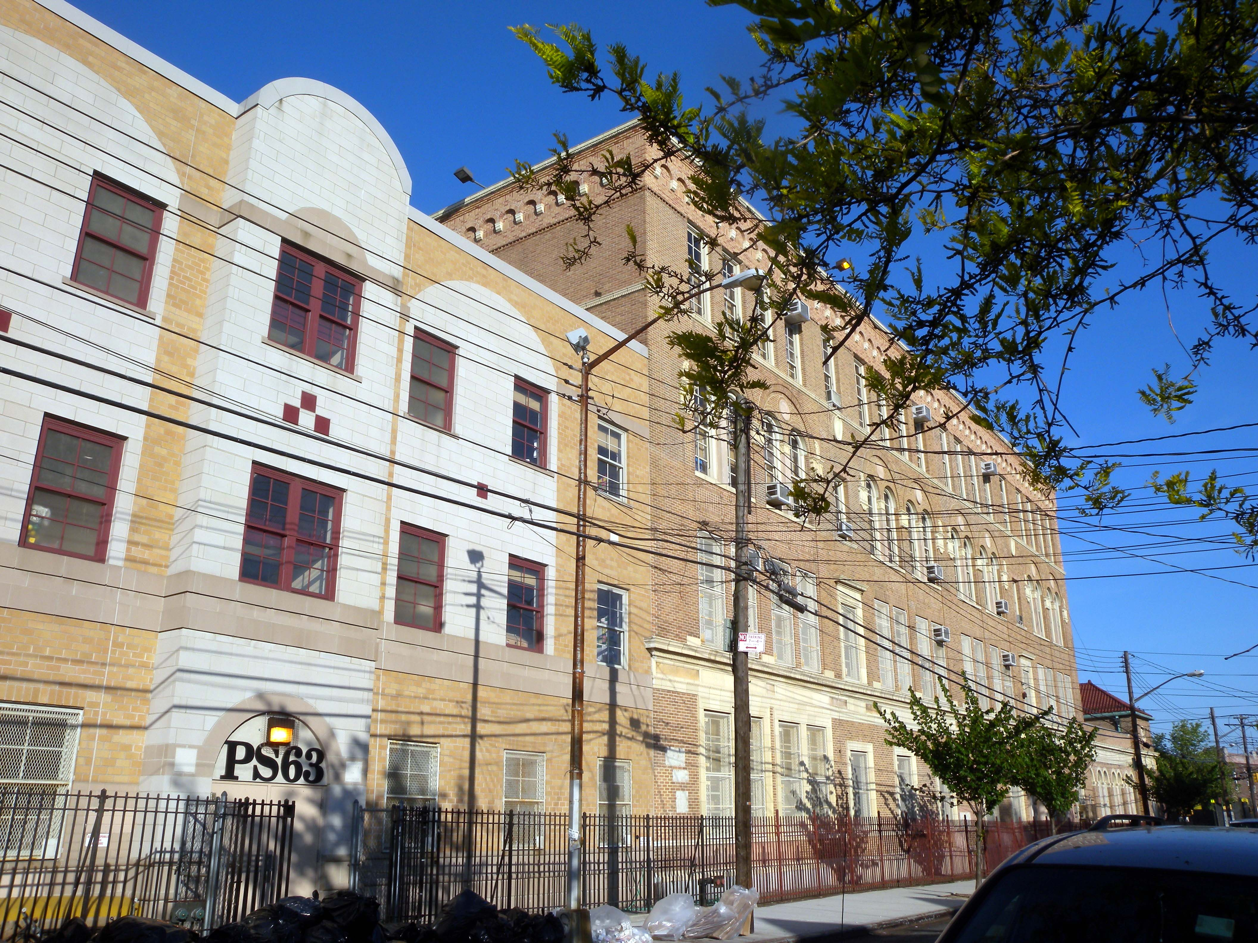 Looking southeast at PS 63 in Ozone Park, Queens on a sunny afternoon.